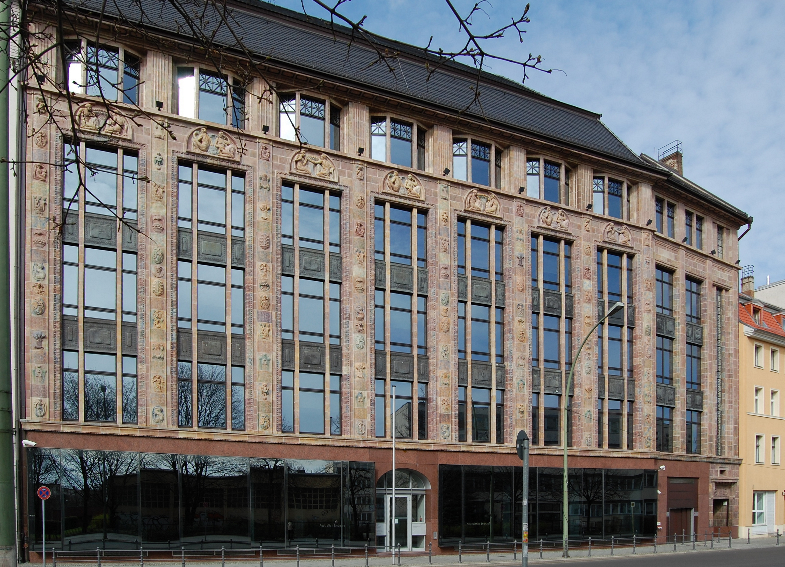 Embassy of Australia in Berlin